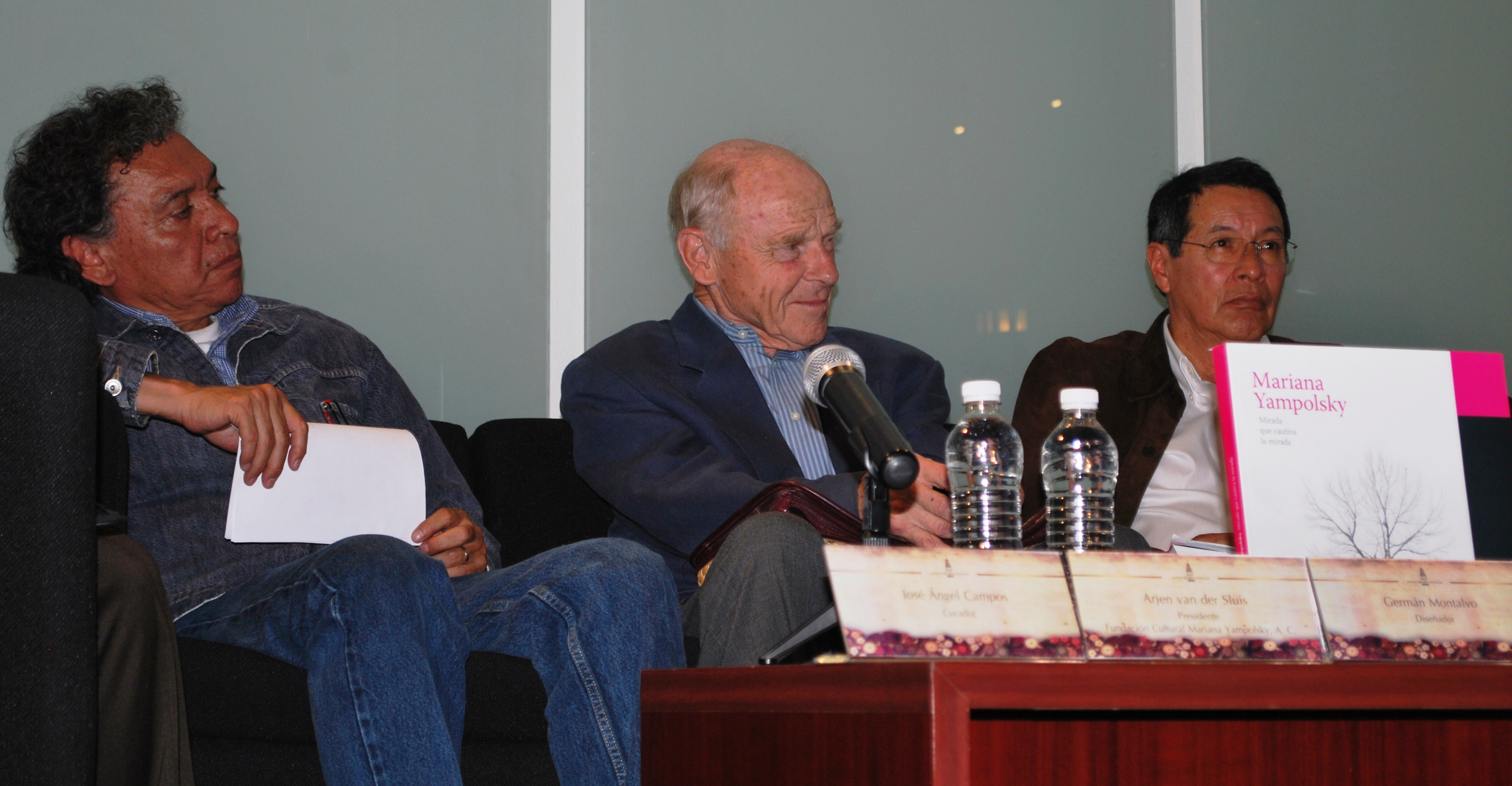 German Montalvo, Arjen ver der Sluis and Jose Angel Campos at the at the Mariana Yampolsky book presentation at the Museo de Arte Popular in Mexico City